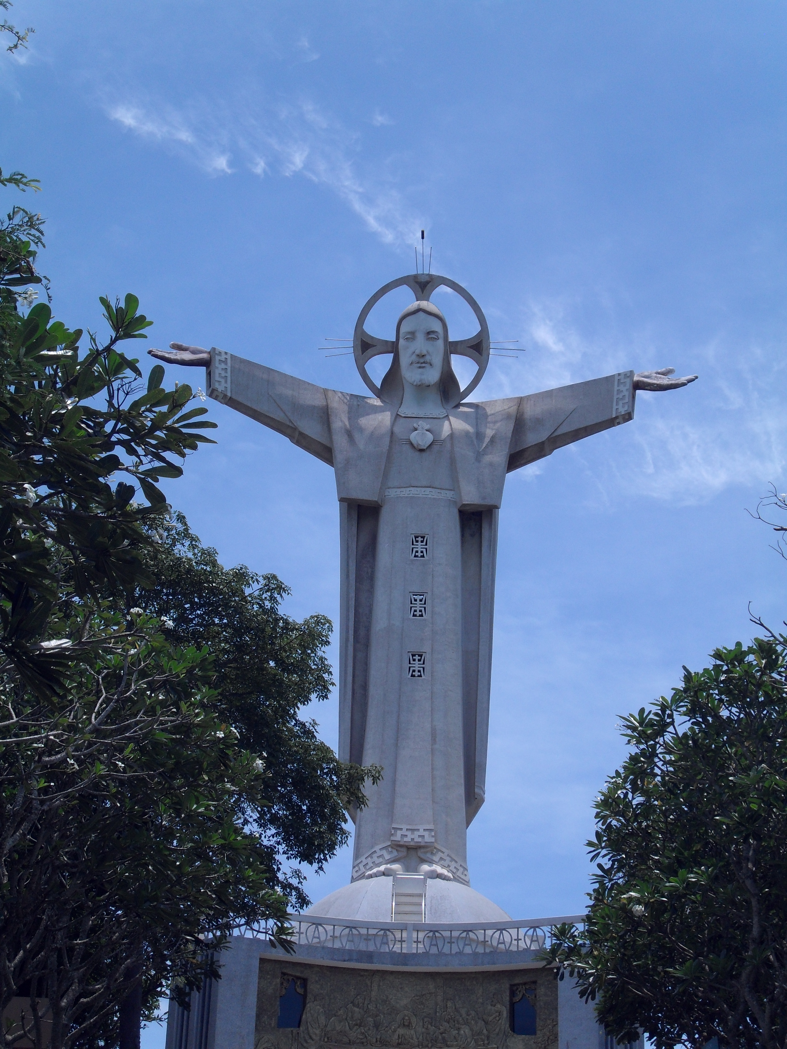 Giant statue of Jesus in Vung Tau, Vietnam